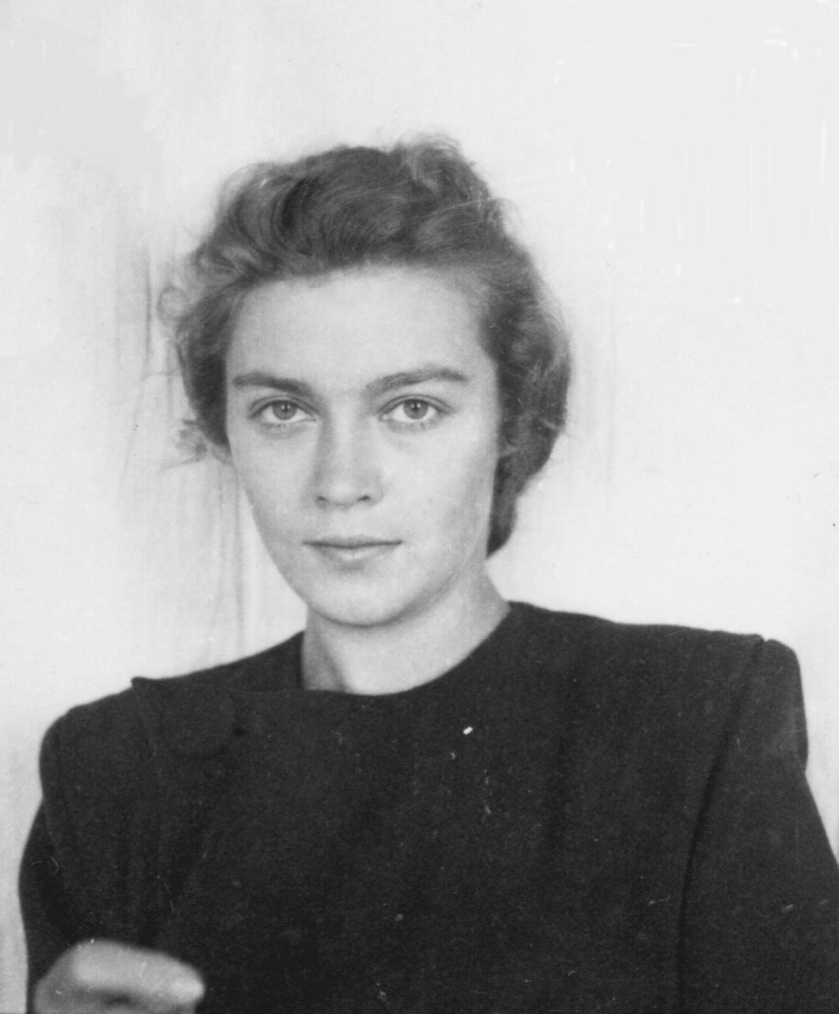 Nadezhda S. Kalugina in the 1950s